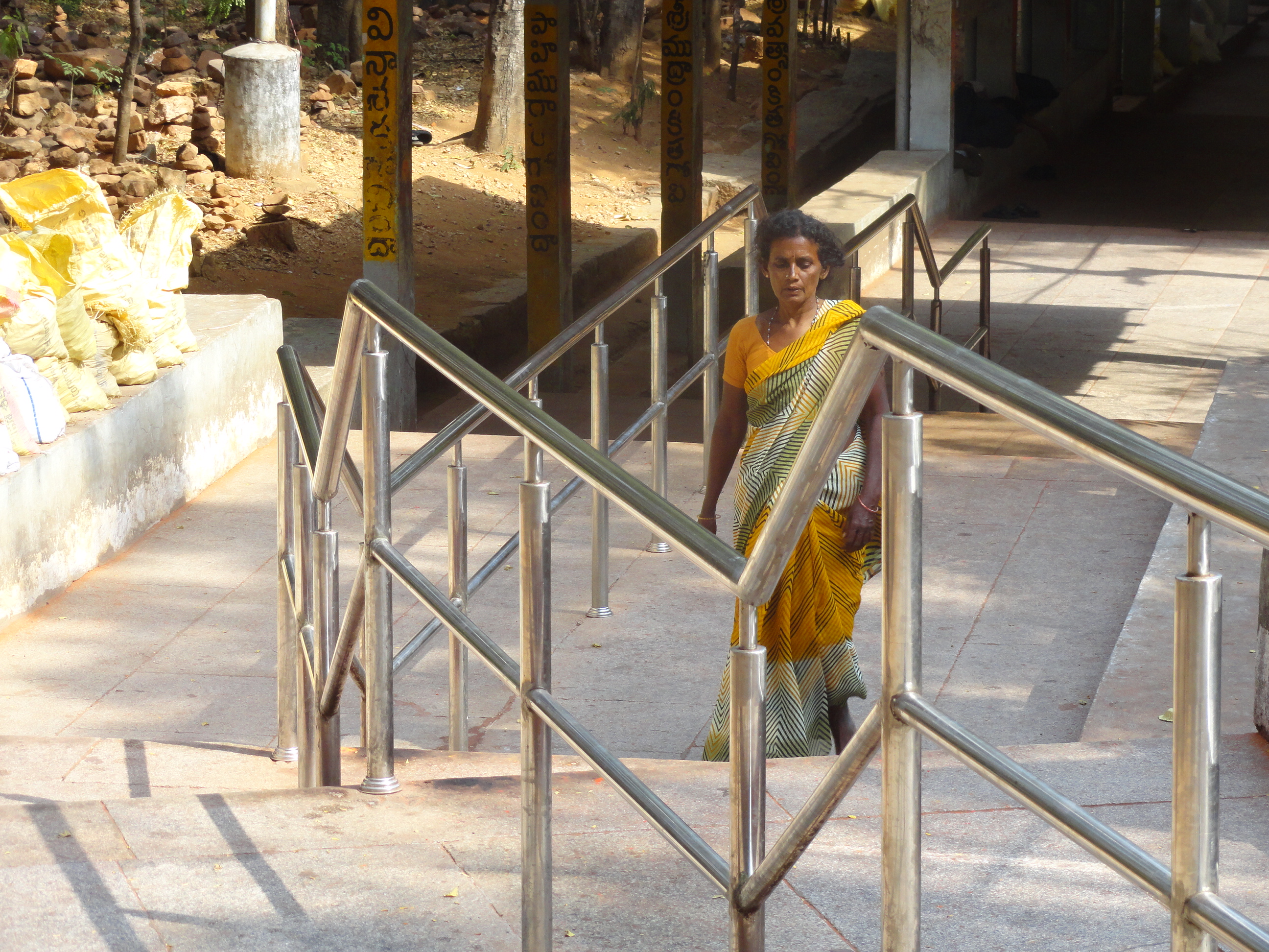 climbing the steps at Alipiri, near Tirupati.